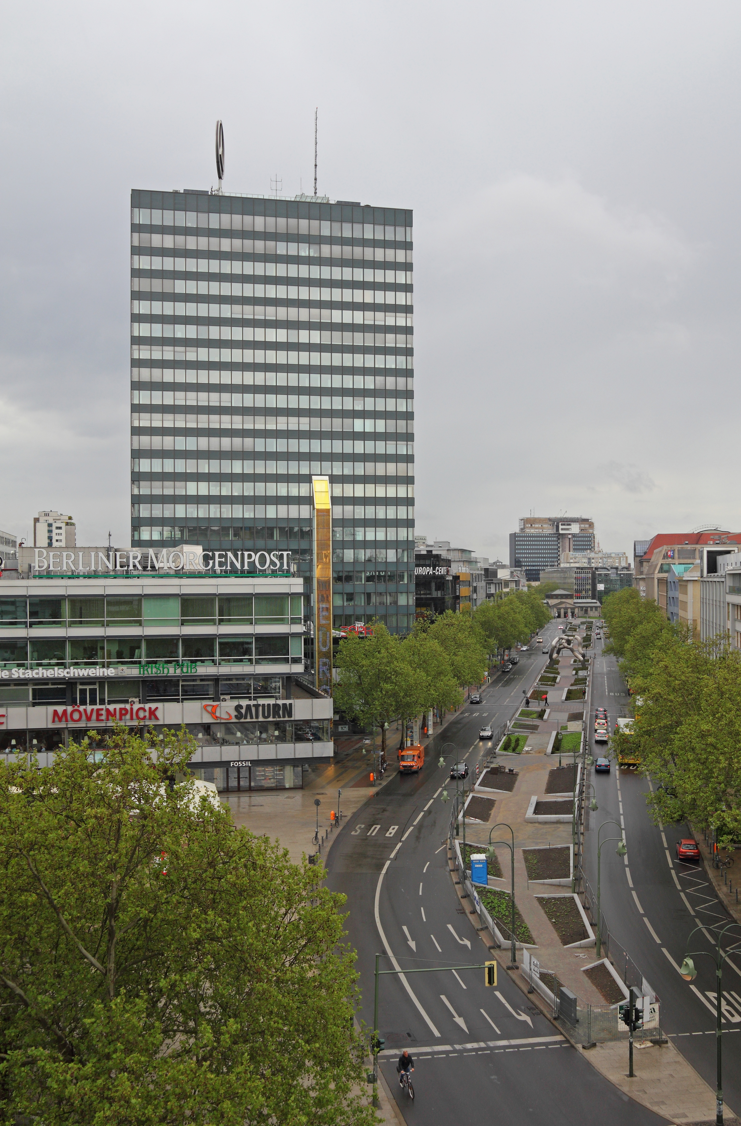 Views from the scaffolds of the Kaiser Wilhelm Memory Church. Berlin-Charlottenburg.